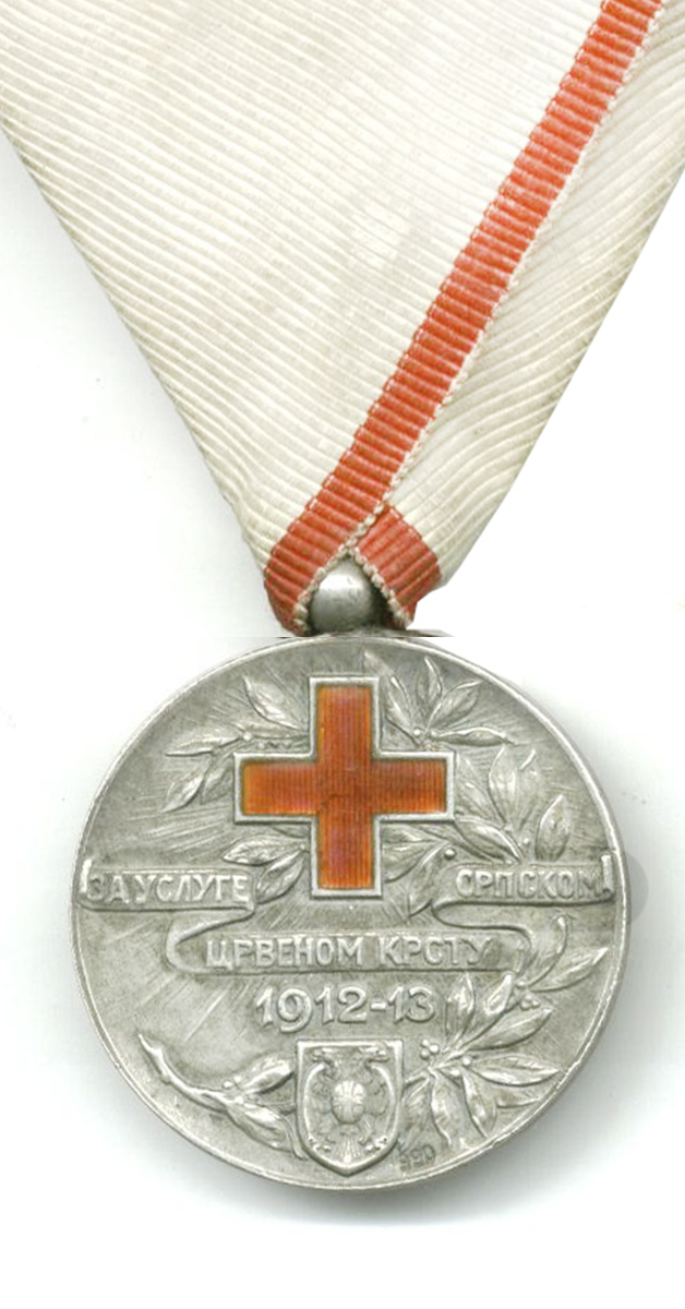 front of the medal of the Serbian Red Cross 1912-1913